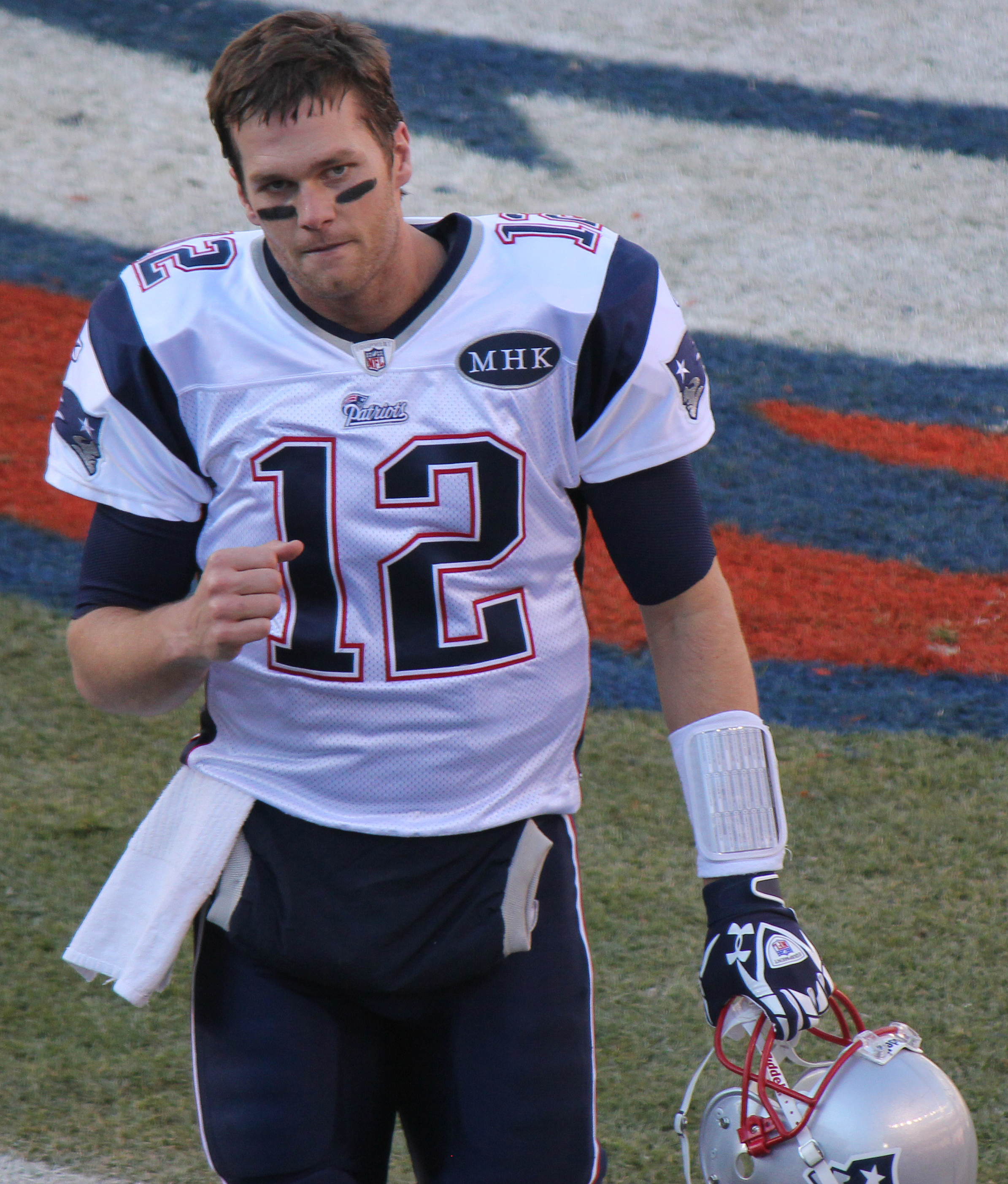 Tom Brady, a player on the National Football League. This picture was taken at Sports Authority Field at Mile High, in Denver Colorado, on December 18, 2011, as the Patriots and Broncos were about to play.